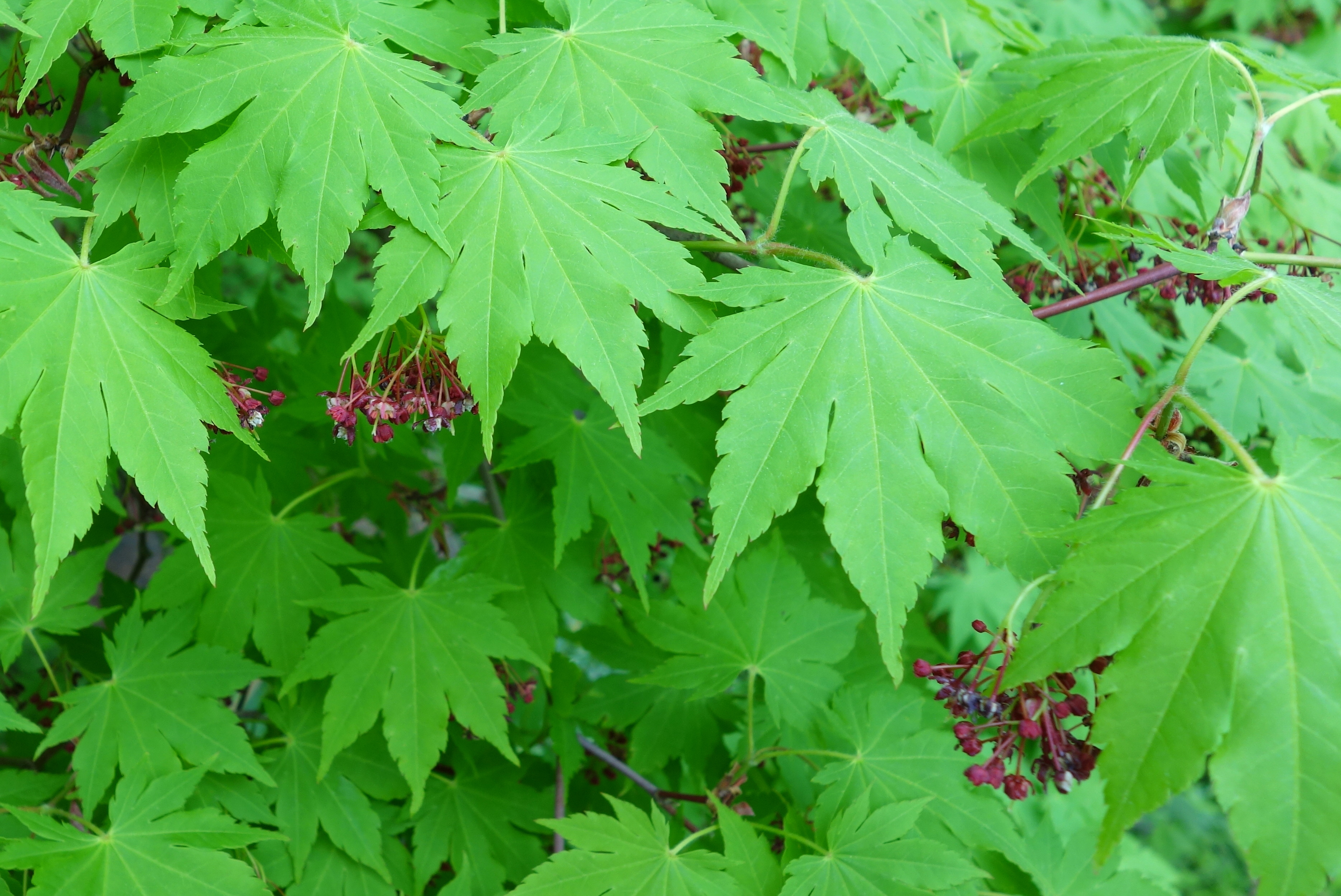 Botanical specimen in the Morris Arboretum, 100 East Northwestern Avenue, Chestnut Hill, Philadelphia, Pennsylvania, USA.